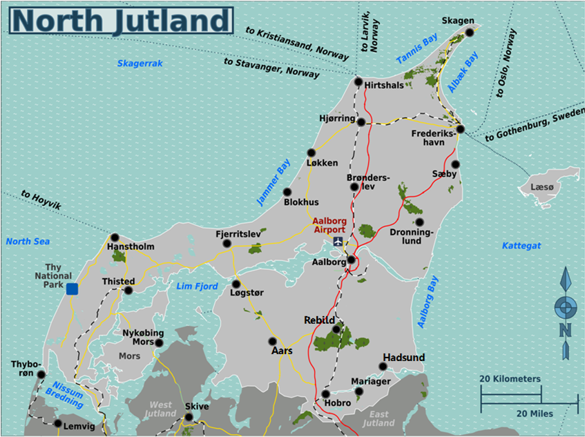 Regional map of North Jutland. Regional map of North JutlandSVG version: :Image:NorthJutland.svg, Jutland Map of: Jutland¤